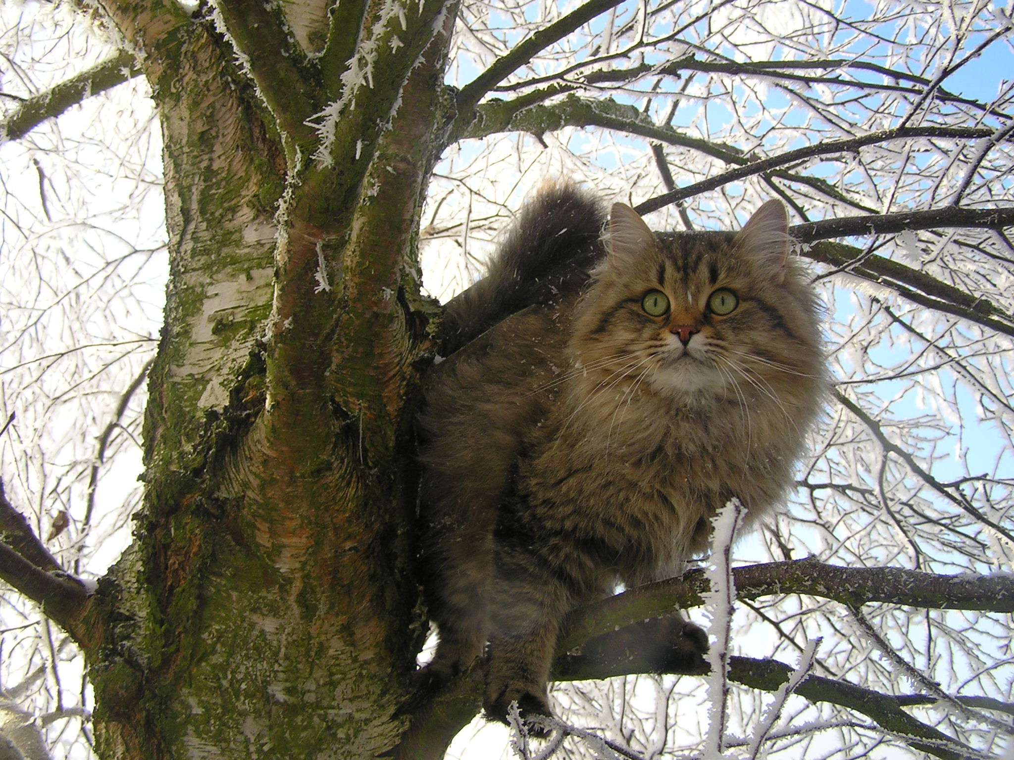 Siberians are very good climber